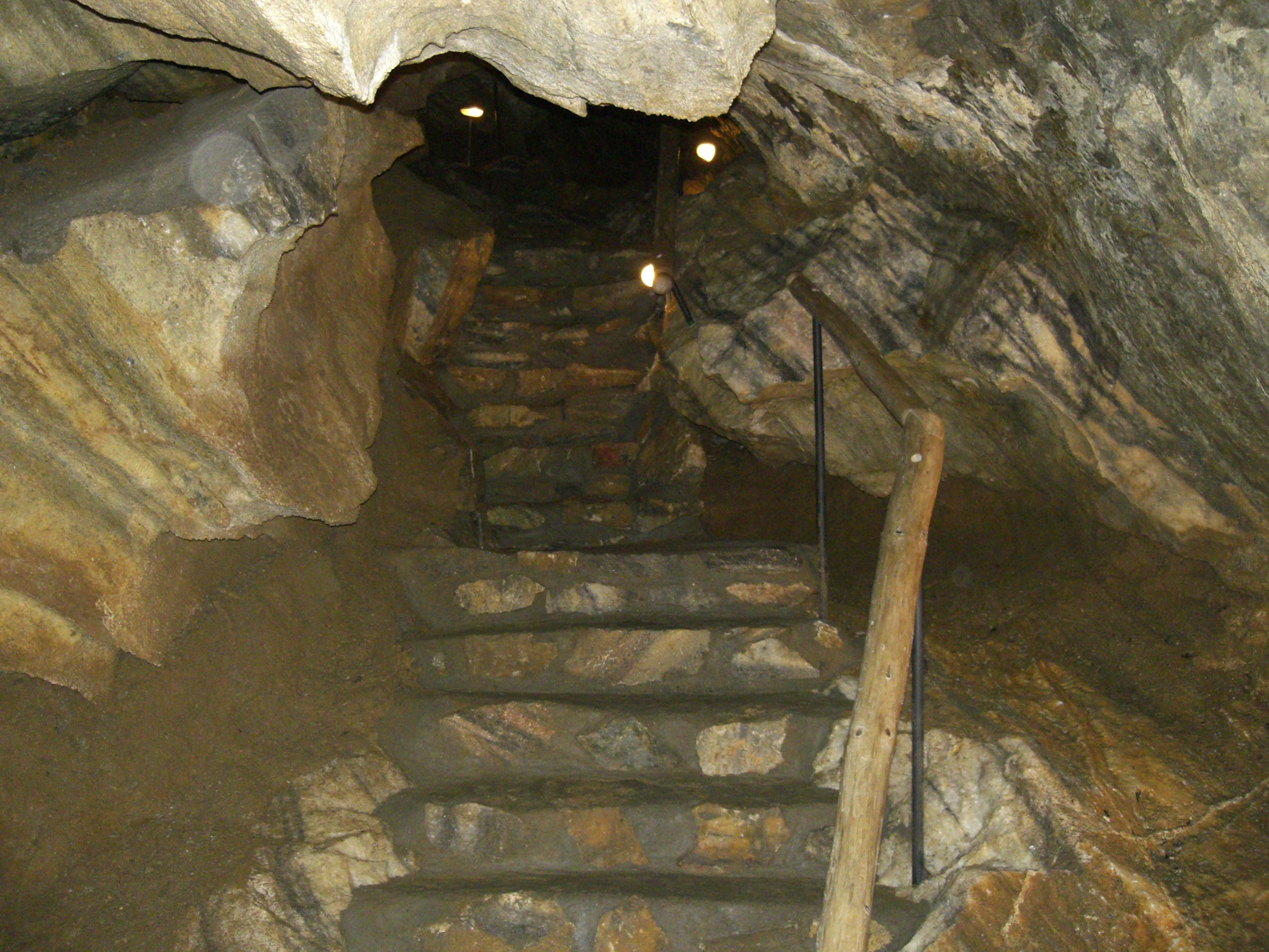 Chýnov's cave near Chýnov village, Czech Republic 49°25′48.39″N 14°49′58.07″E / 49.4301083°N 14.8327972°E